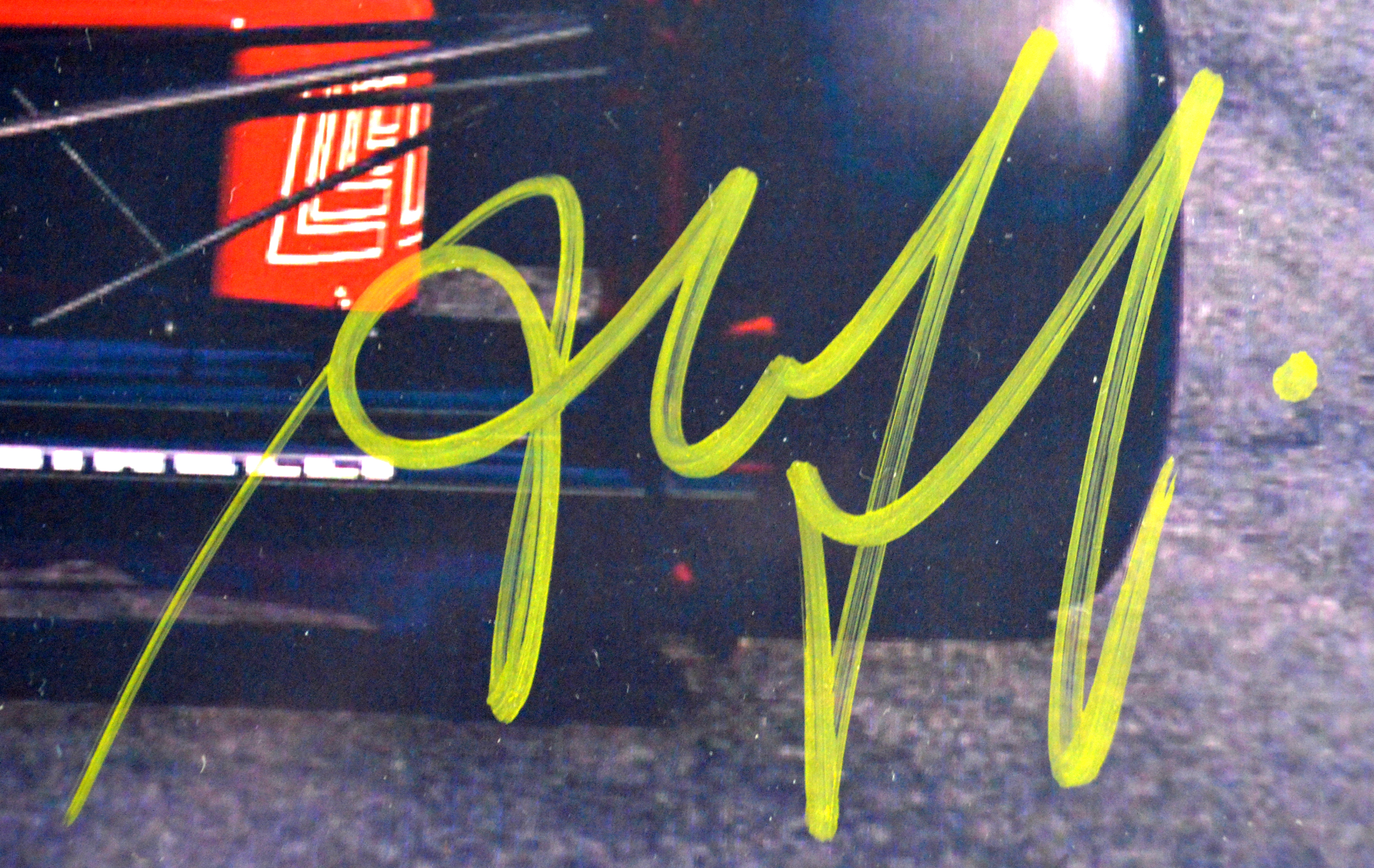 Autograph of Alessandro "Alex" Caffi (born March 18, 1964) Formula One driver from Italy.